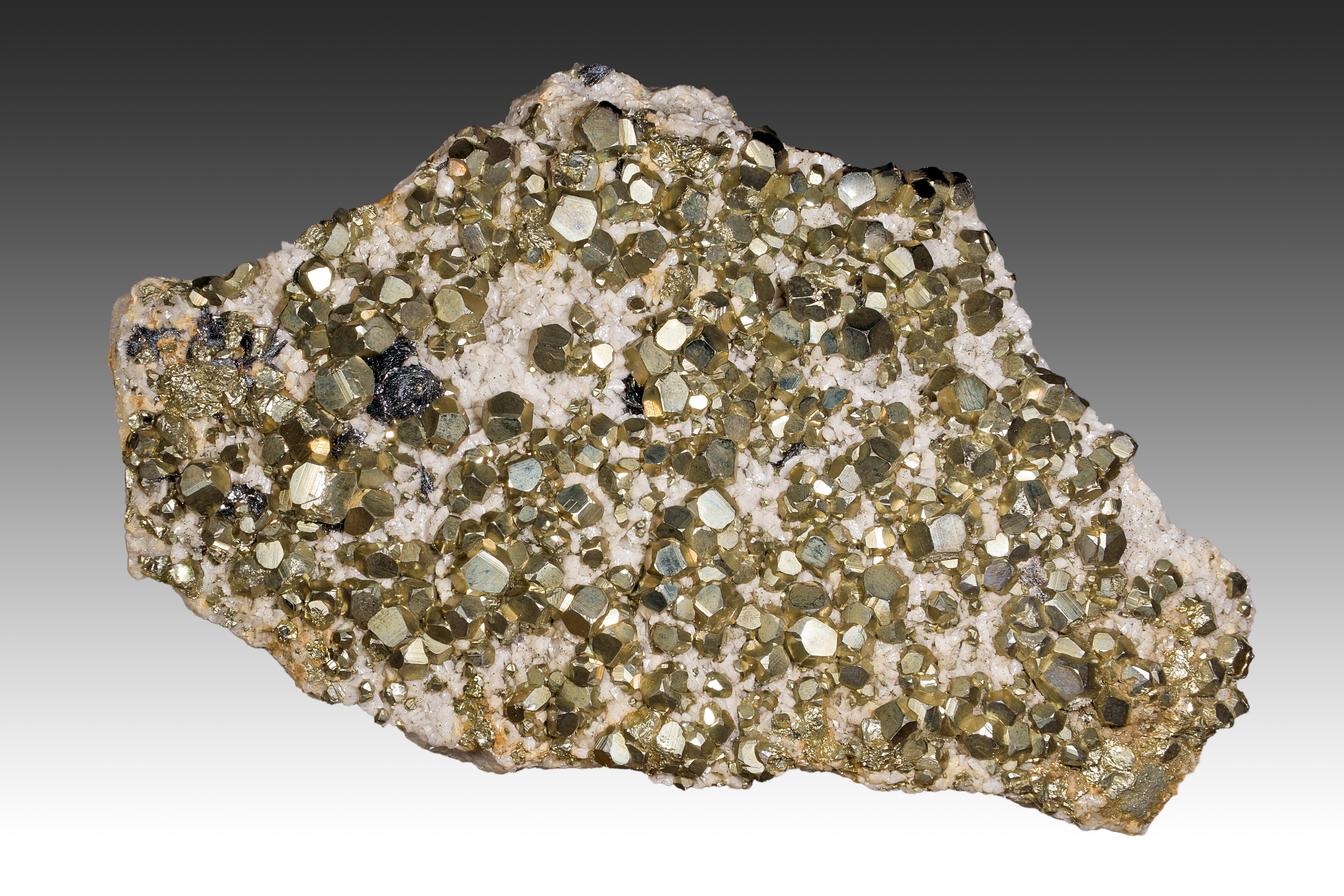 Pyrite hematite and dolomite Locality : Batère Mine (Pyrénées Orientales) - France Size : 17 x 11 cm